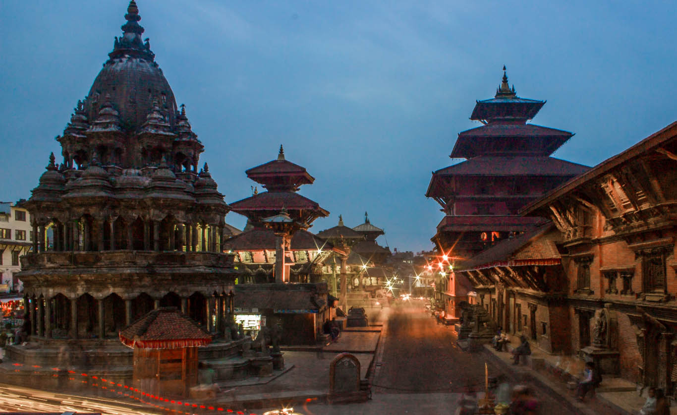 This is a long exposure picture of Patan Durbar Square at night.